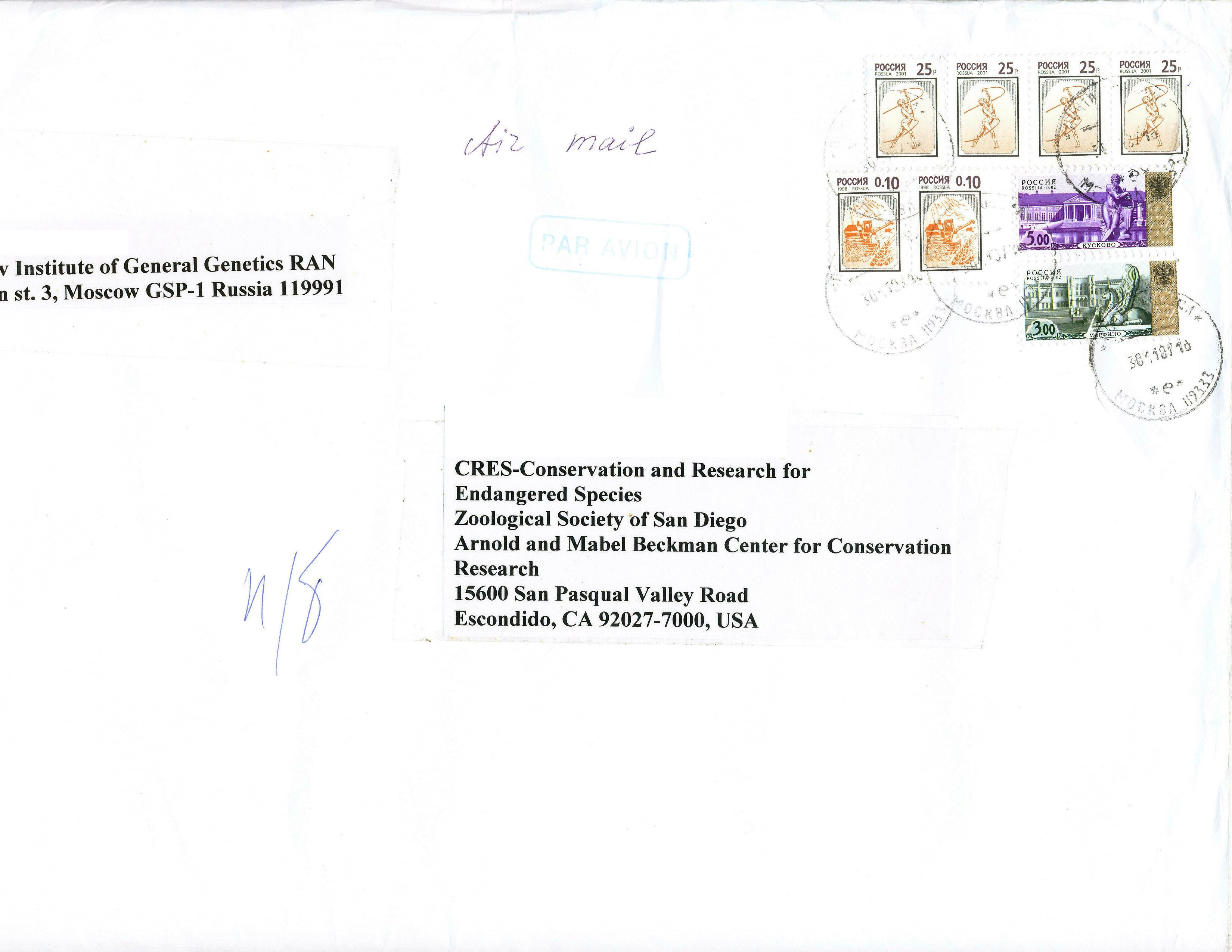 A 2007 airmail mailing of the printed matter (fragment) from Russia to the U.S. with Russian postage stamps issued in 1998, 2001 and 2002.